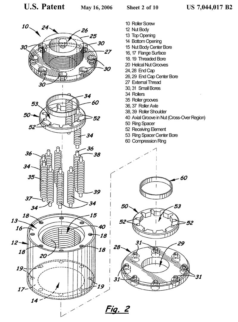 Patent Drawing for Cage-less Recirculating "Roller Screw System", U.S. Patent 7,044,017 (2006), with legend added.